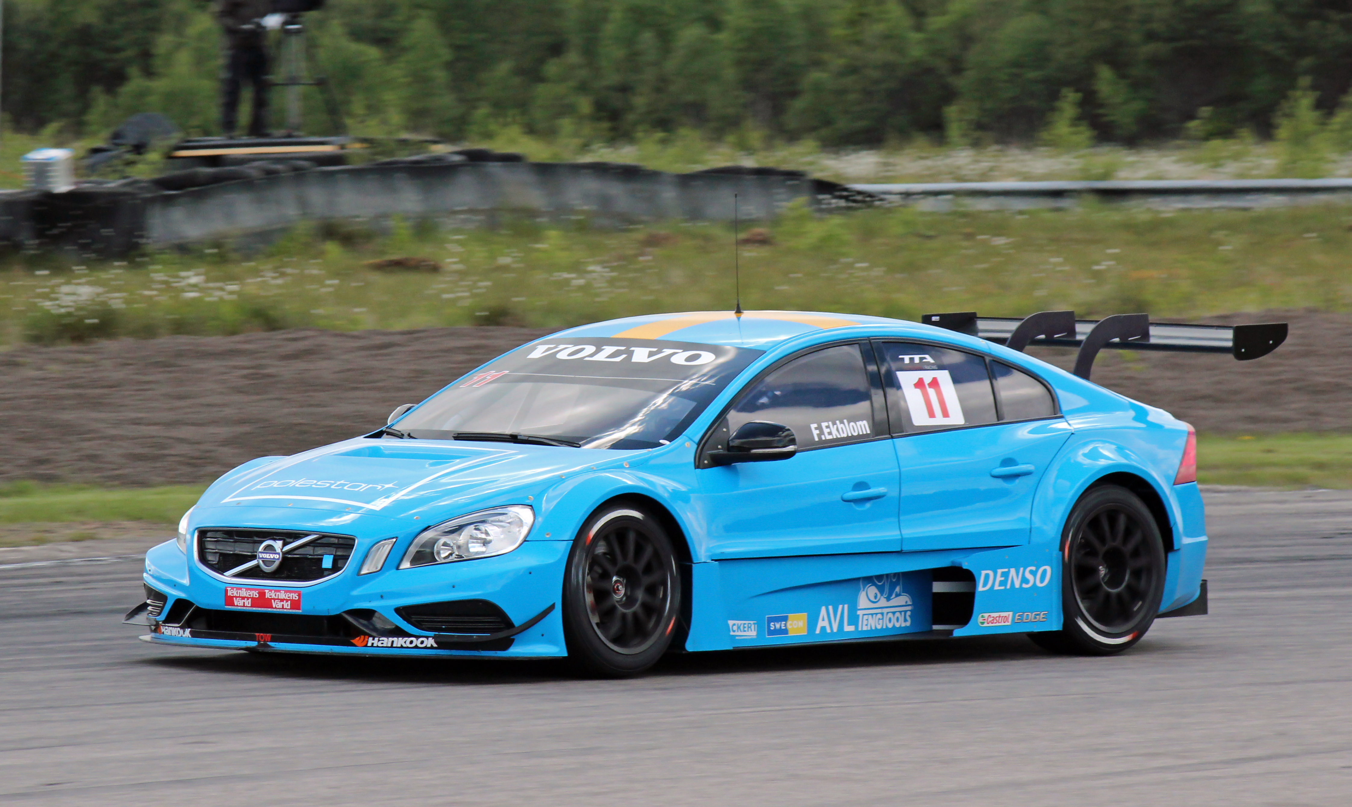 Fredrik Ekblom in his Volvo S60 Solution-F for Volvo Polestar Racing in TTA – Racing Elite League at Anderstorp Raceway in 2012.